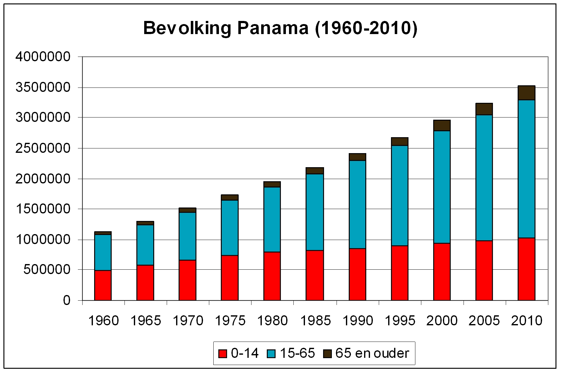 Population of Panama, by age group, between 1960-2010. Source: The World Bank